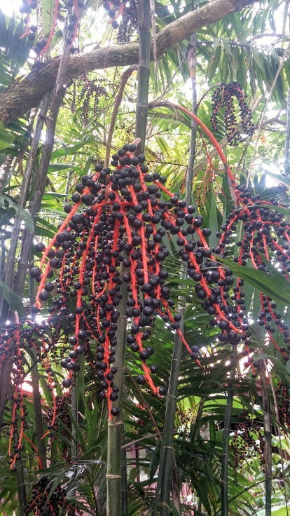 Chamaedorea costaricana with ripe fruits in Monteverde, Costa Rica